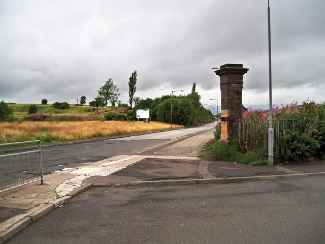 Old Gate Post, Carlisle Street, Springburn Old gate post on corner of Carlisle Street and Inverurie Street Springburn. No idea what the history is of the post and would welcome further info from anyone who knows the area. The picture is looking North. The grassed area on the left was the site of Glasgow City Council flats demolished in the 90's. The area is now for sale. 24th July 2009 10.00 a.m.